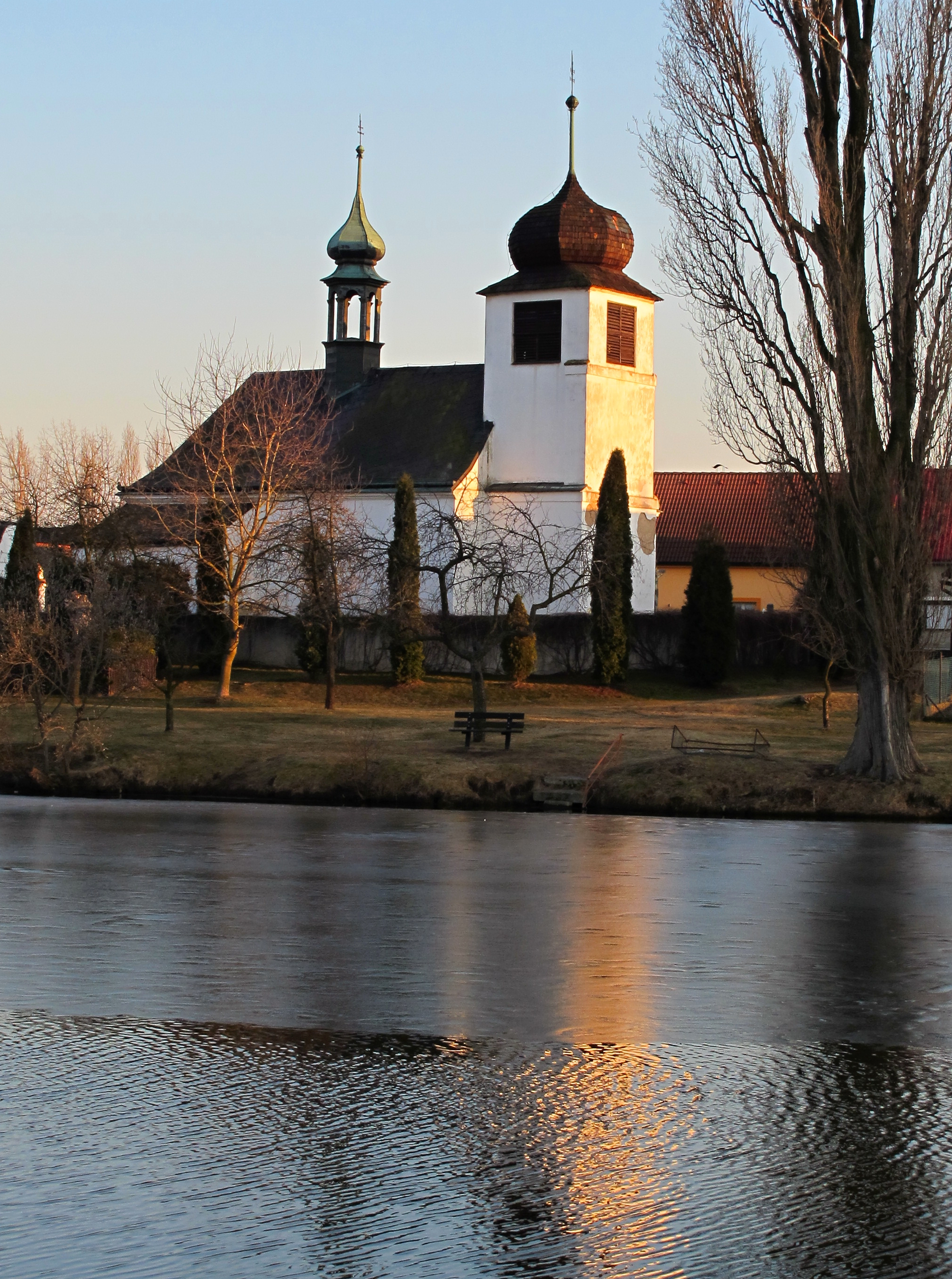 Church of the St. John the Evangelist, Dlouhá Lhota in Příbram District, Czech Republic